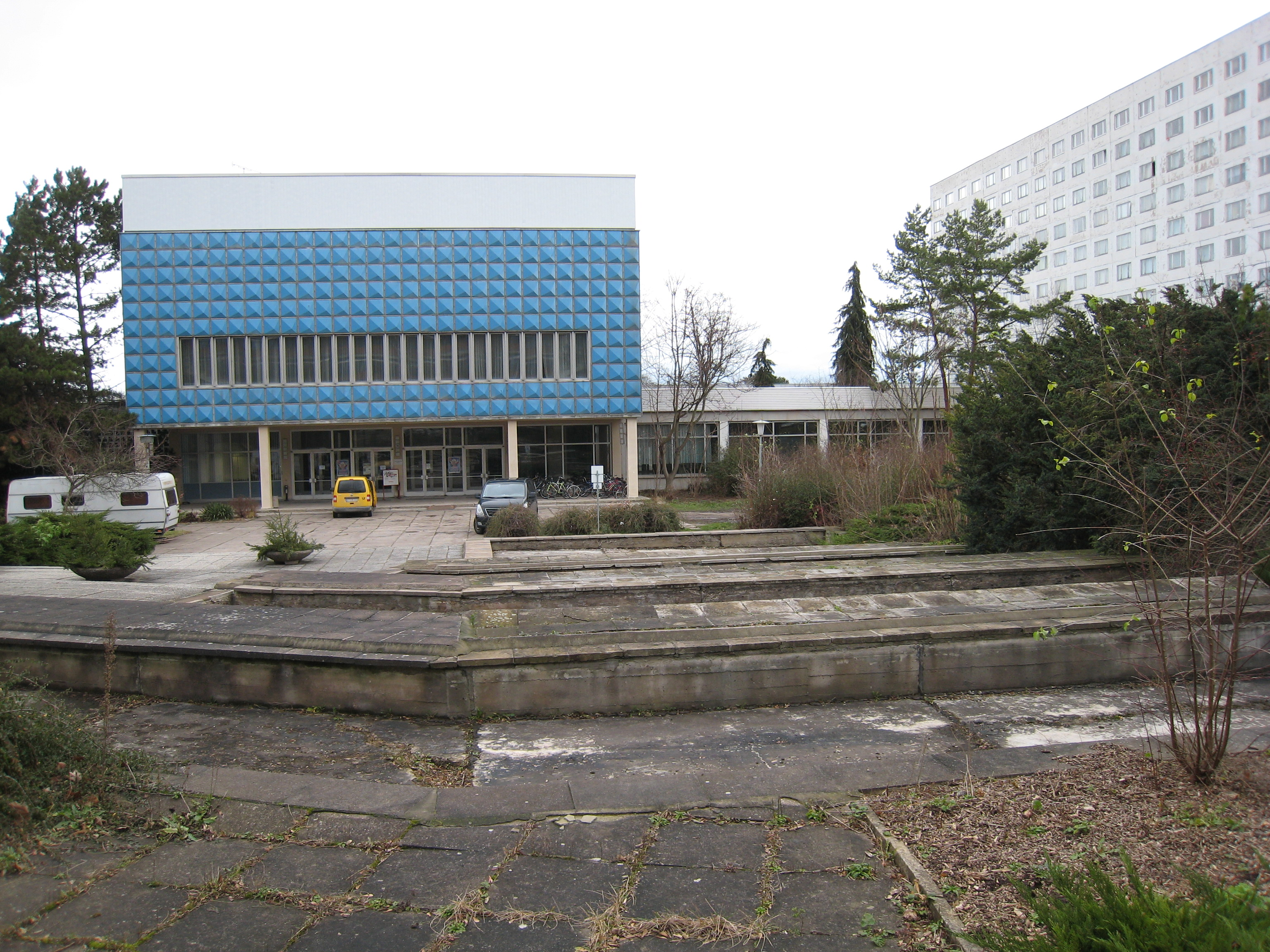 SED political school Erfurt, Werner-Seelenbinder-Strasse 14